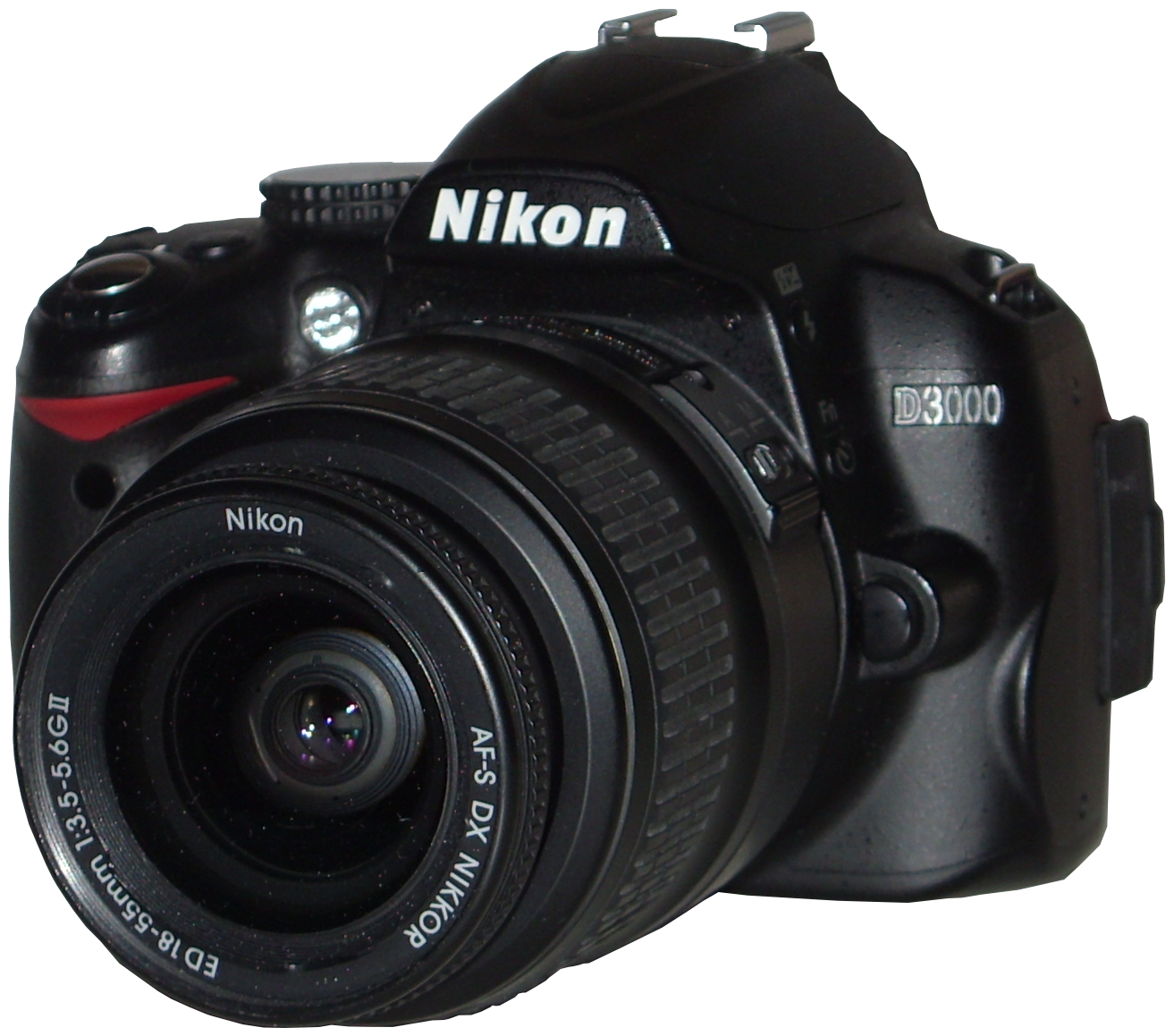 A Nikon D3000 with an AF-S DX Nikkor 18-55mm f/3.5-5.6G ED II lens